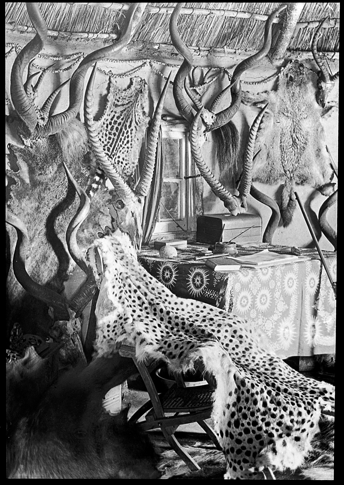 Lantern slides. C22, interior of Mr. Lyle's hut Archives & Manuscripts Keywords: naval & military; David Bruce